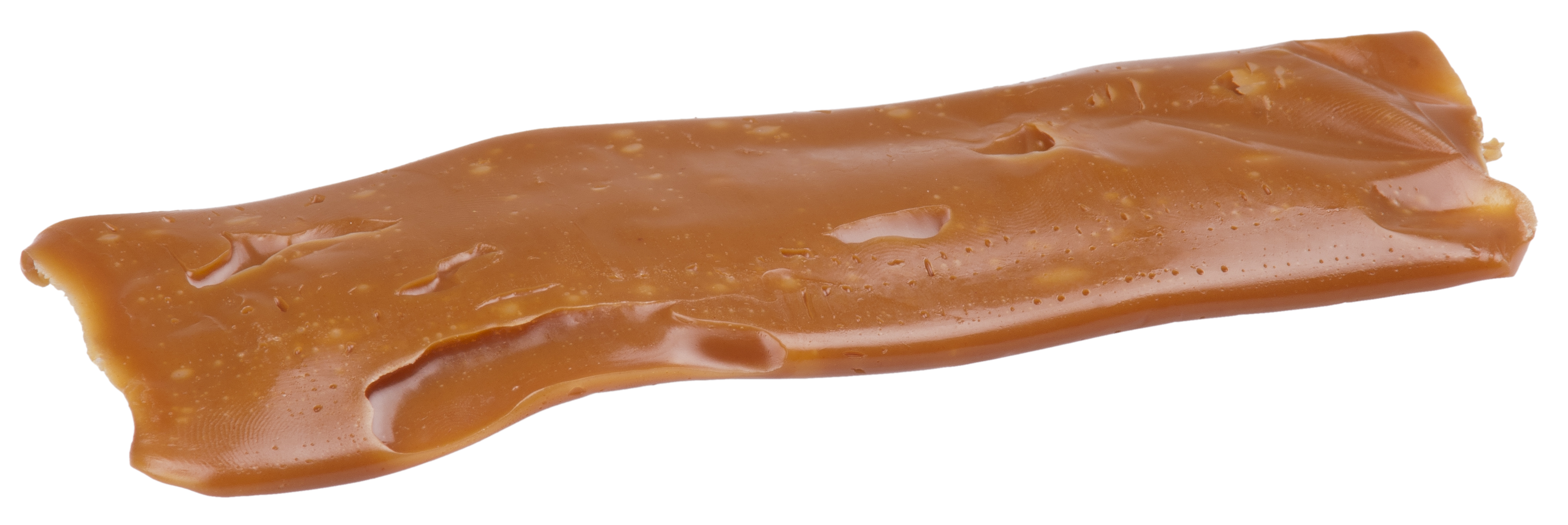 A slab of Slo Poke caramel.